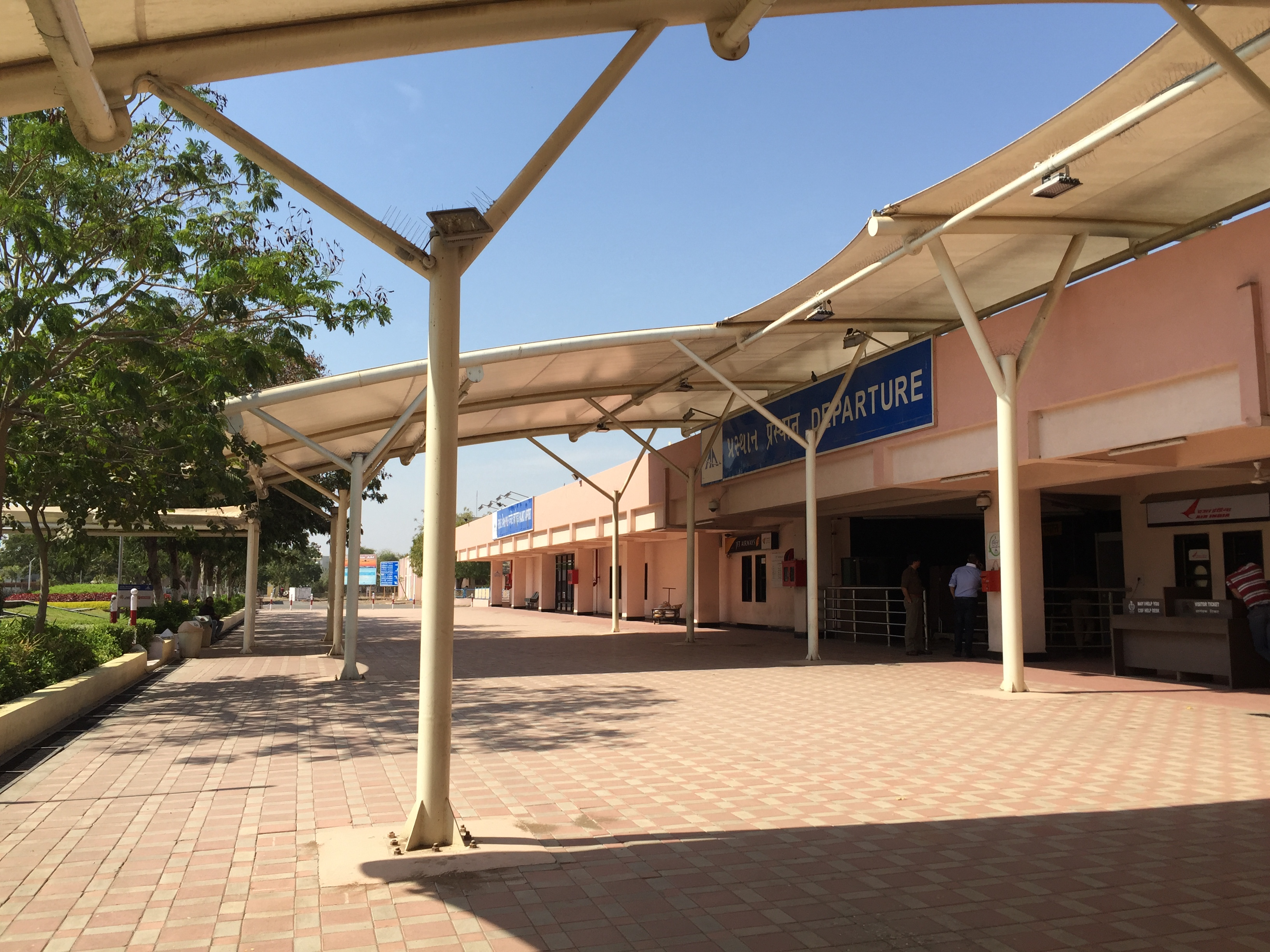 City-Side view of Rajkot Airport Terminal Building in Gujarat, India.